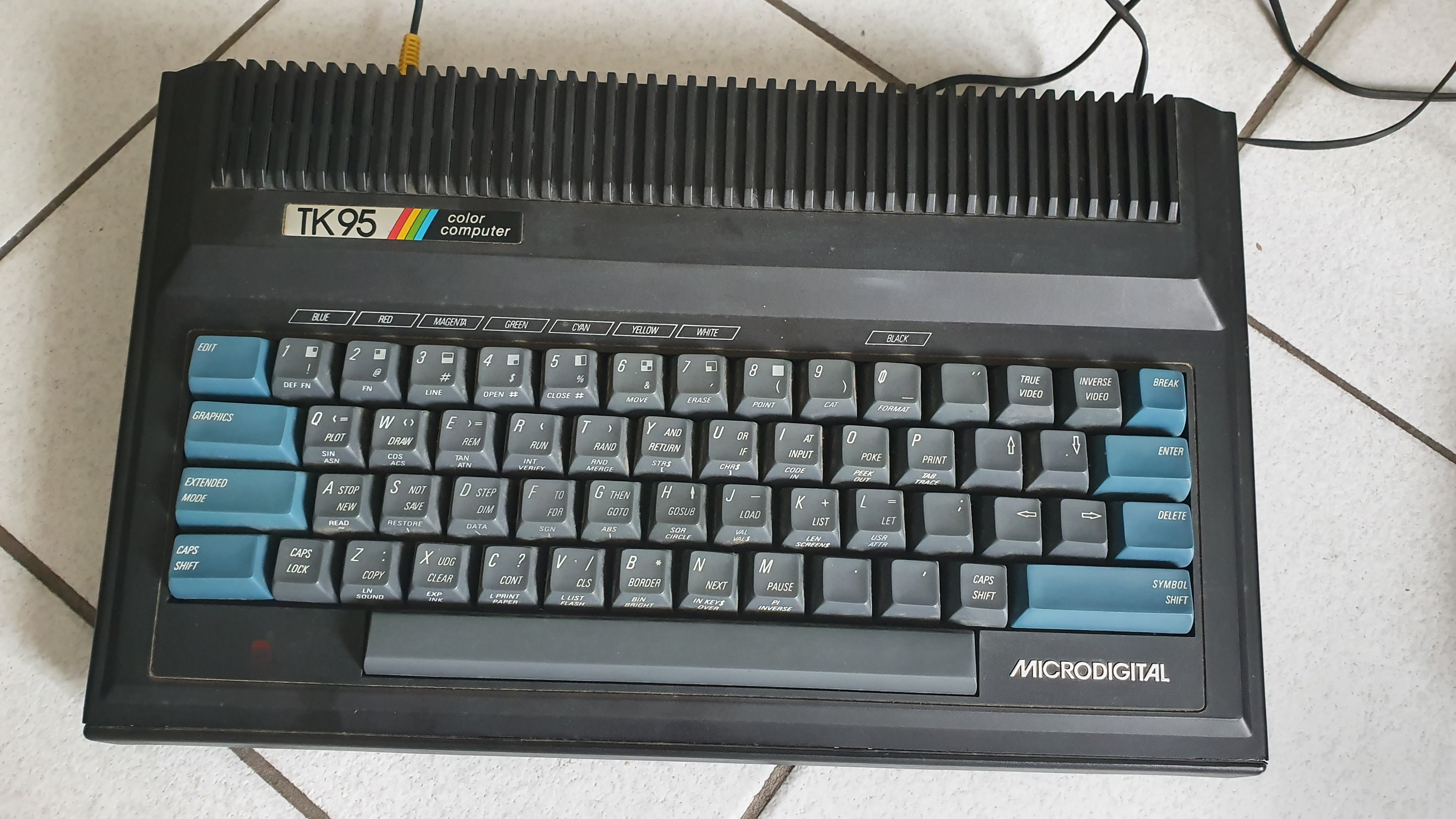 Picture of a TK-95, a brazilian ZX Spectrum clone from 1986.